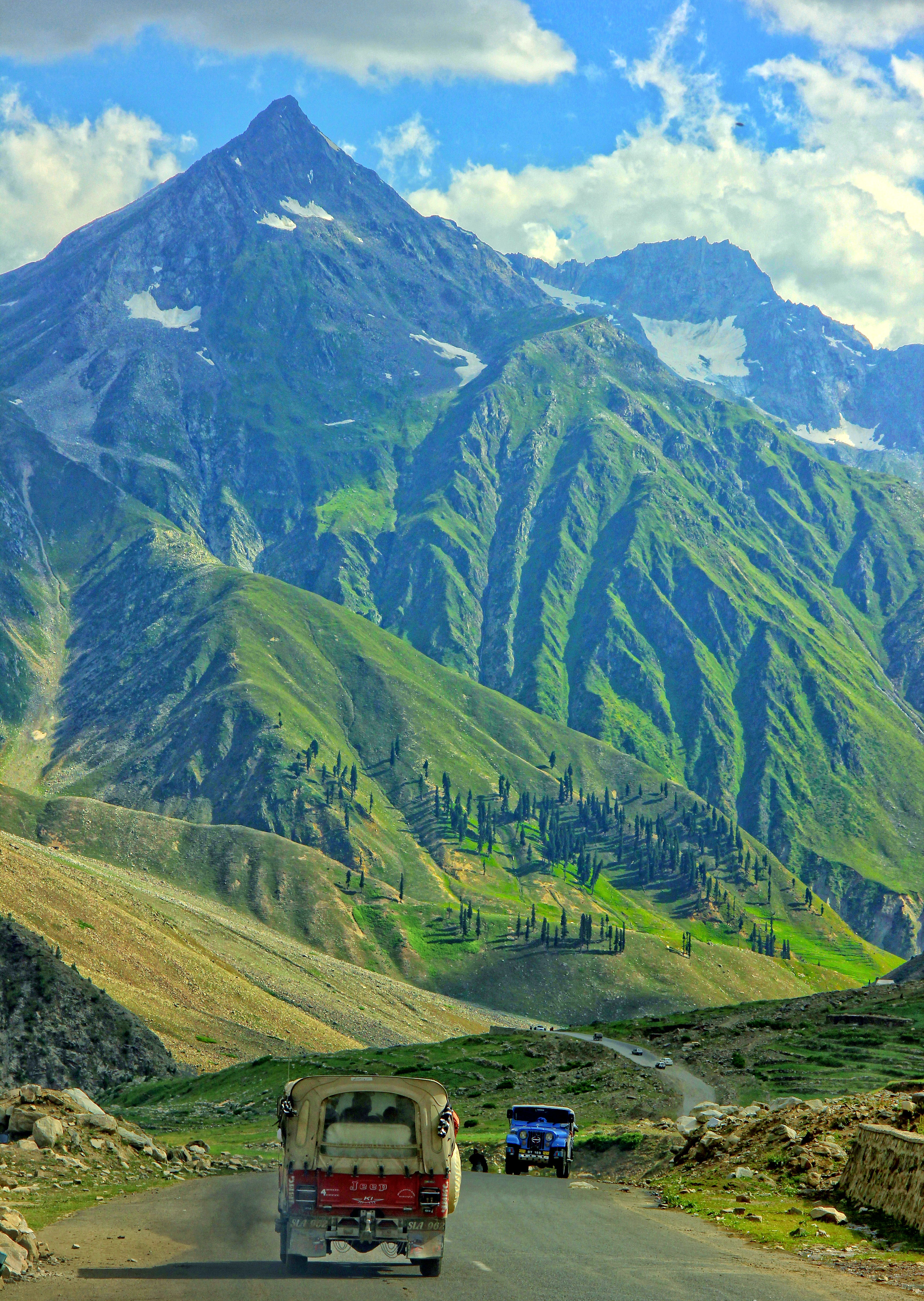 Way to Naran valley